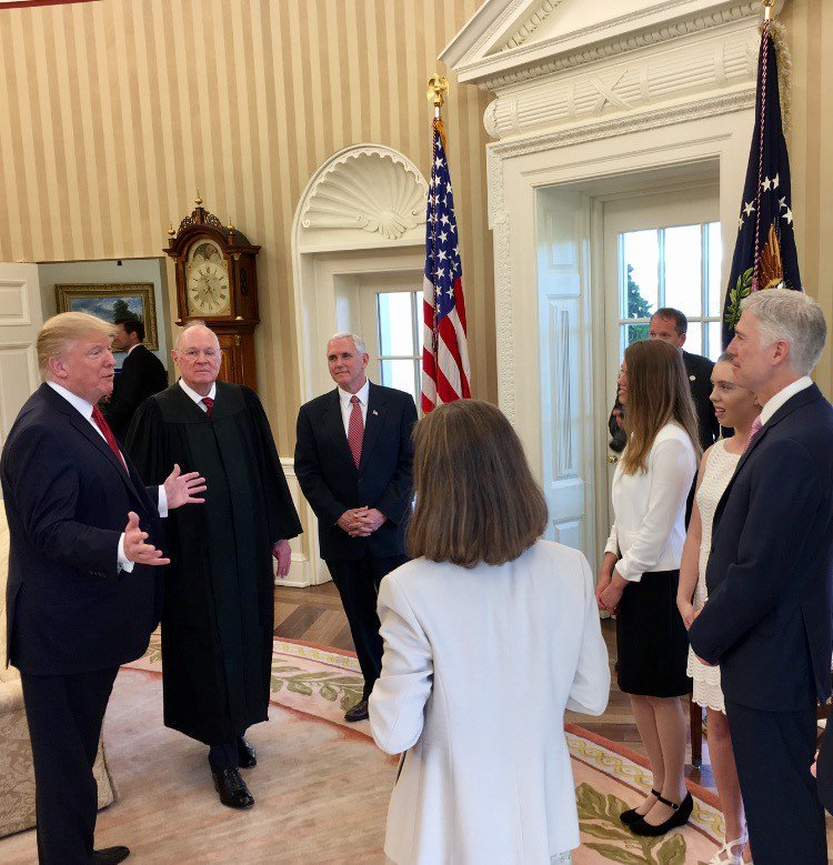 Honored to be with Justice Gorsuch, his wife Marie Louise, & their daughters at the @WhiteHouse as @POTUS hosts today's swearing-in ceremony